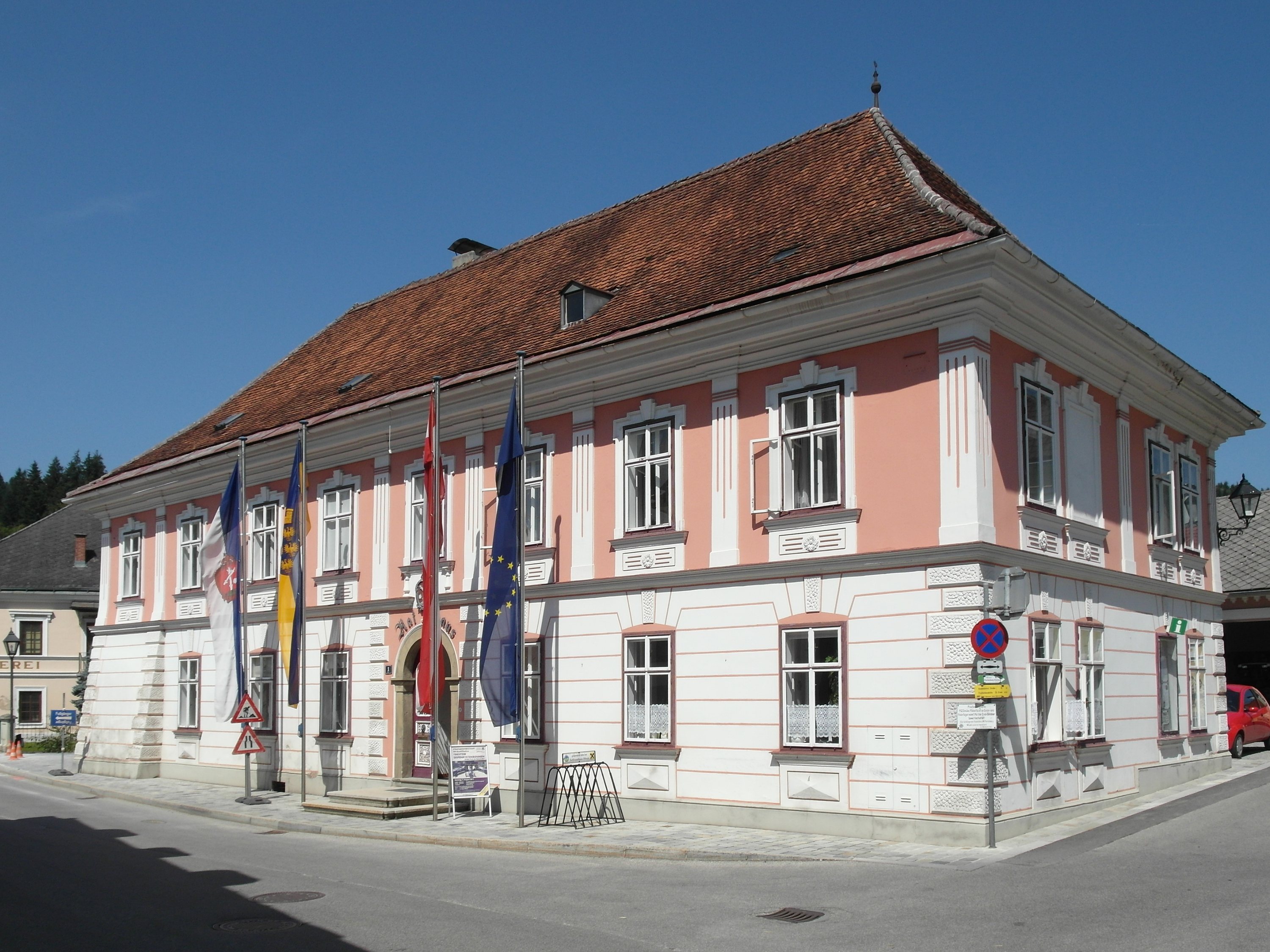 The Ybbsitz townhall